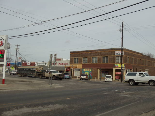 Downtown Krum, Texas